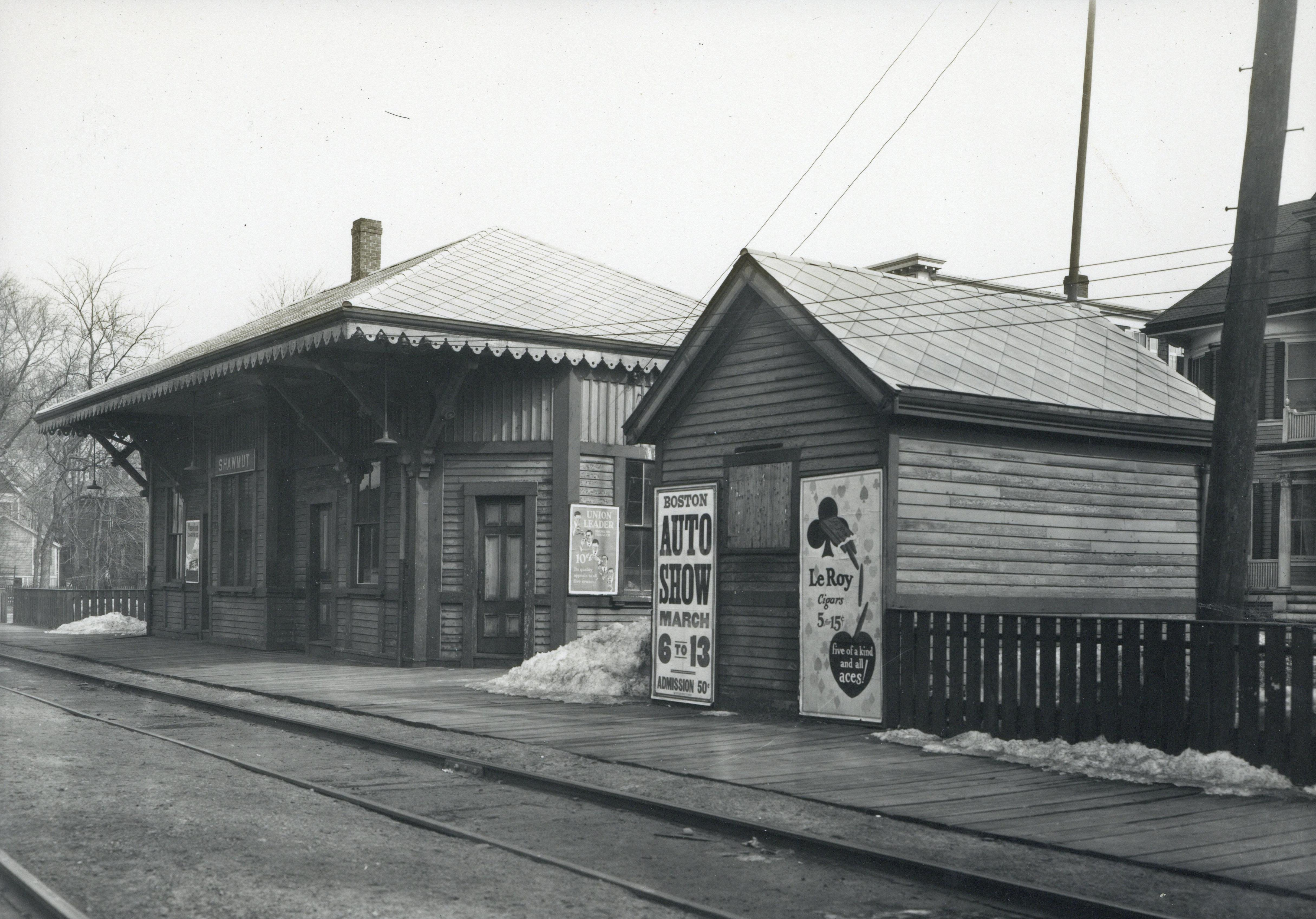 Shawmut station in March 1926, shortly before it was closed and demolished to make way for a rapid transit extension